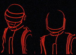 Daft Punk in their encore suits, cropped from a larger photo for use in a userbox.